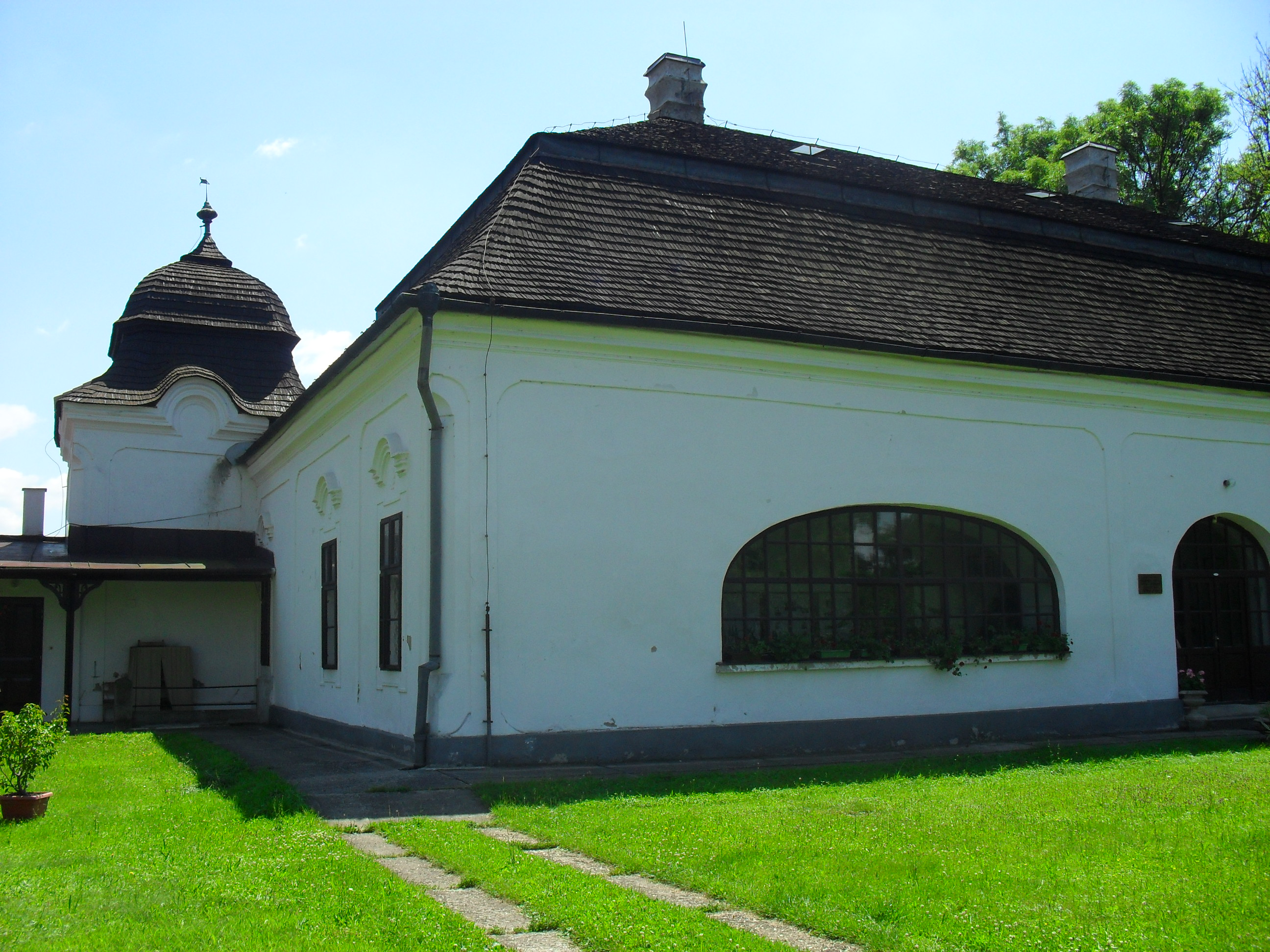 Vidiná - manor